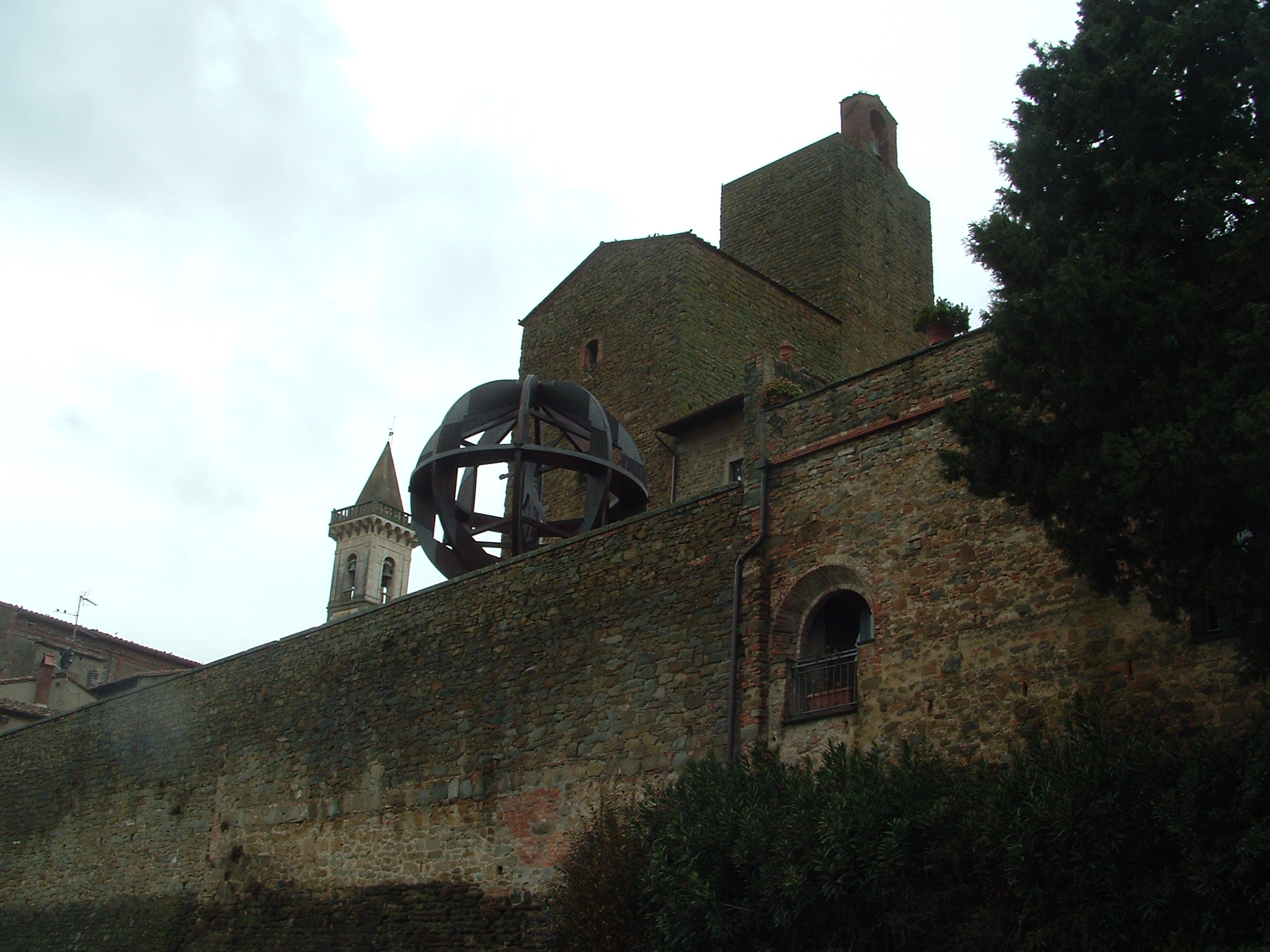 Castello dei Conti Guidi (Castello della Nave) in Vinci, Province of Florence, Tuscany, Italy